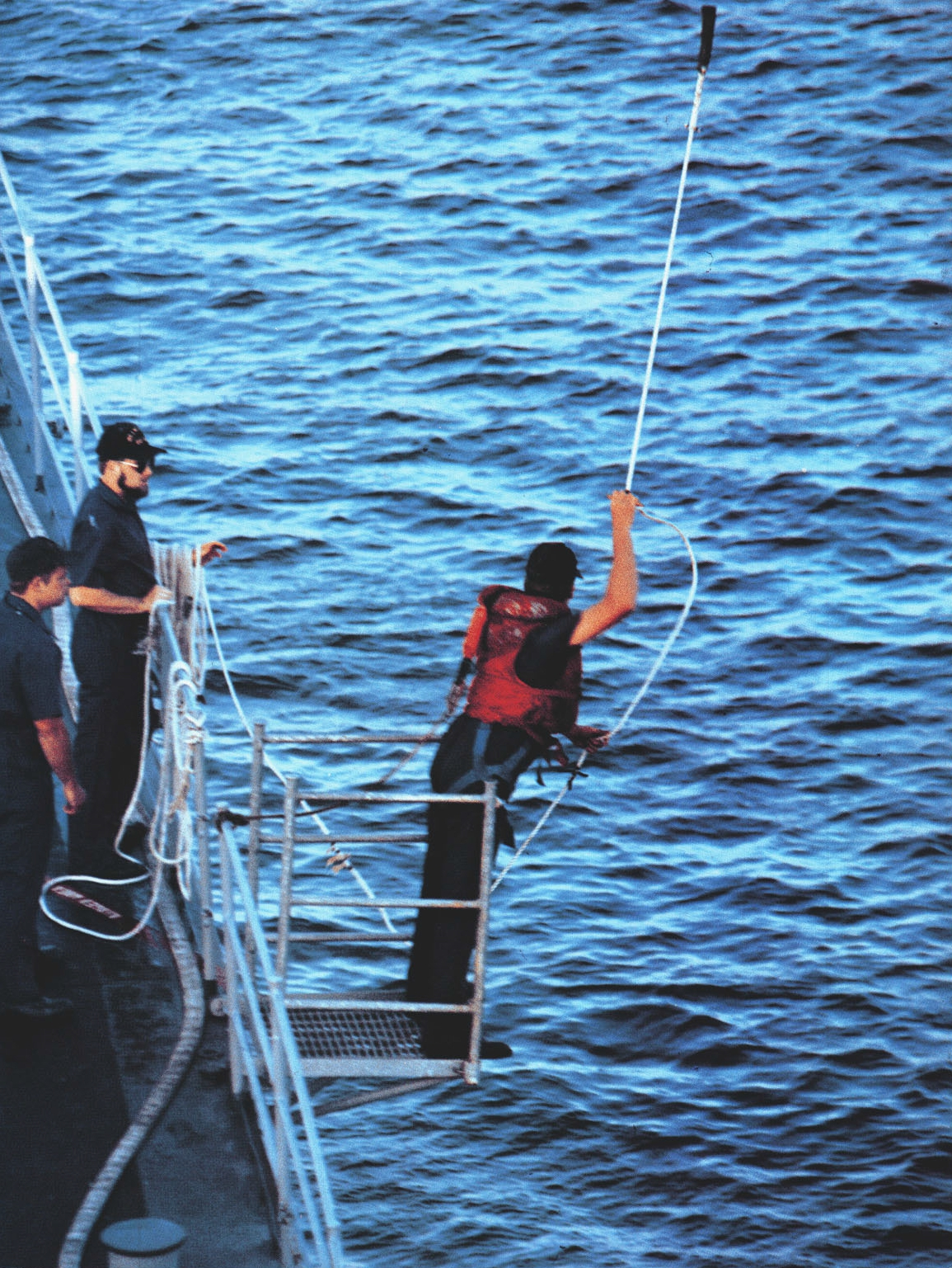 A U.S. Navy crew member from the destroyer USS Arthur W. Radford (DD-968) takes a channel sounding with a lead line as the destroyer approaches Freetown, Sierra Leone.